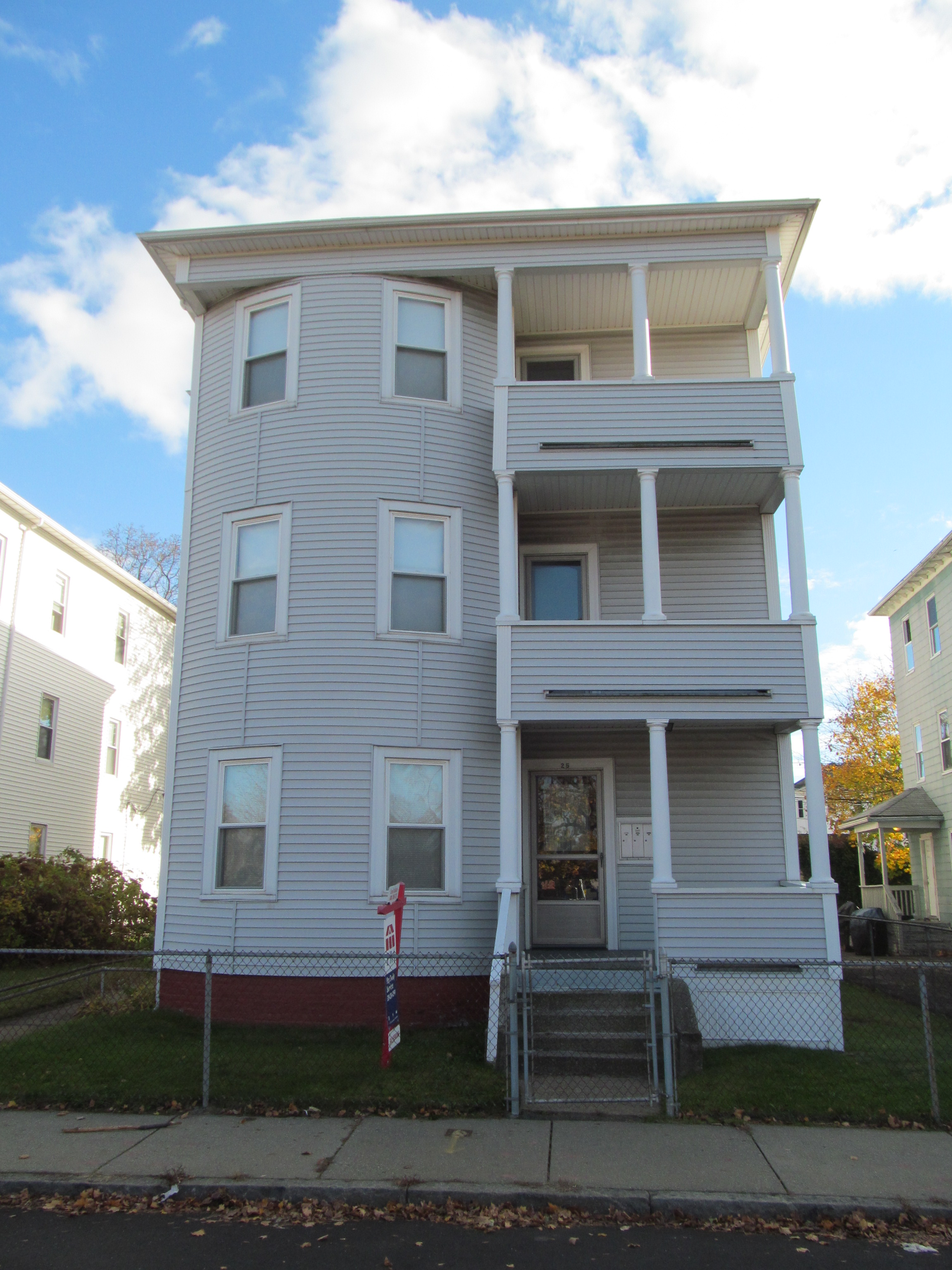 25 Canton Street, Worcester Massachusetts